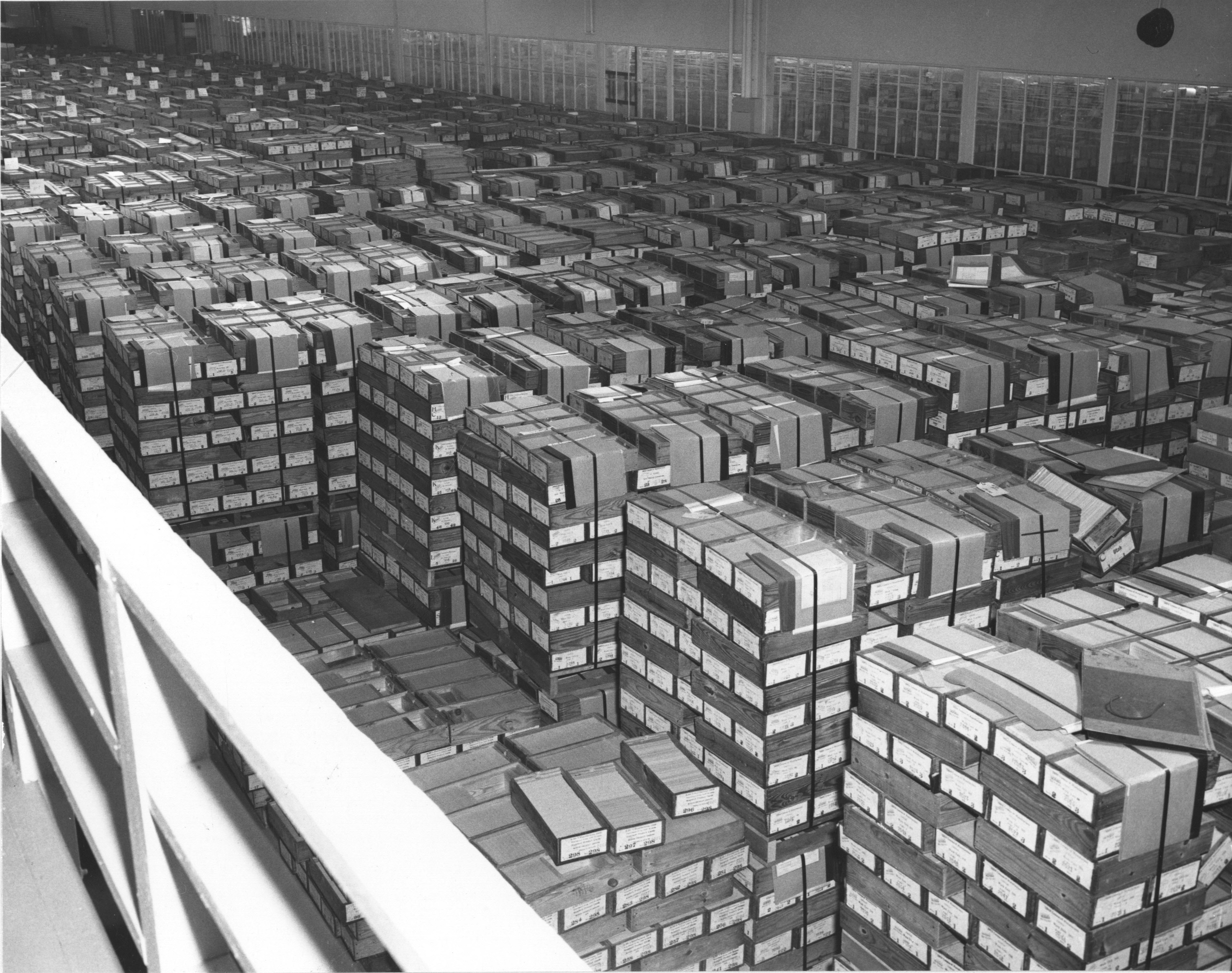 "Storage of IBM record cards at the Federal records center in Alexandria, Virginia, November 1959. Between 1950 and 1966 the records centers received millions of cubic feet of records, saving the federal government more than the total spent for the entire operation of the National Archives Records Service." Note: There are about 20 rows of pallets visible, each row is 15 pallets wide, pallets are stacked two high (at least). Each pallet contains 45 boxes of punched cards. Standard card boxes contained 2000 cards. Each card held up to 80 characters, for a total of about 4.3 billion characters of data in this storage facility - about the same as a 4GB flash drive.